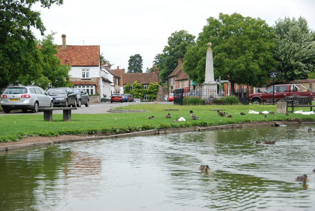 Church End, Haddenham, Buckinghamshire, with the war memorial on the right